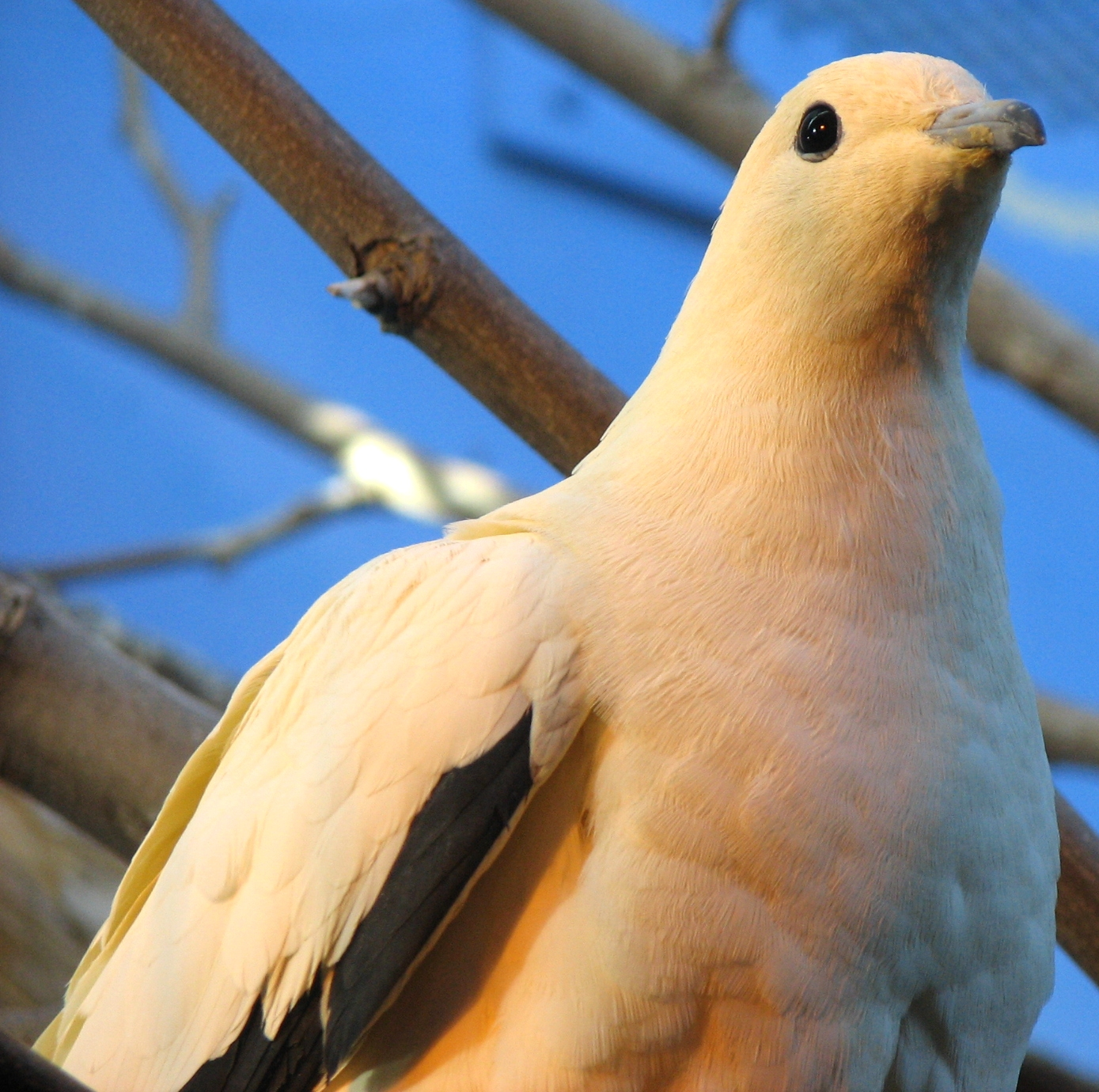 Pied Imperial-pigeon